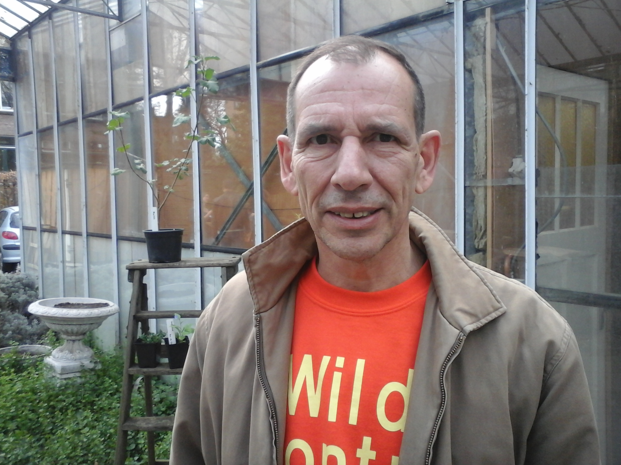 Ben Zegers tijdens "Blik in de Wijk" in Rotterdam Blijdorp, 2018